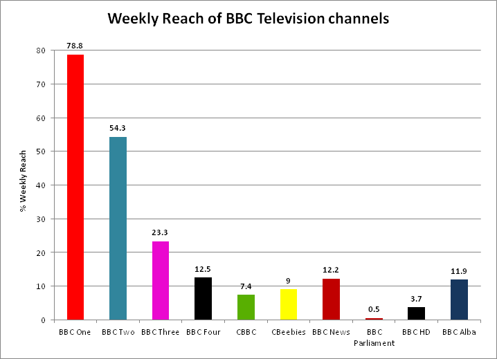 A graph showing the weekly reach of the BBC's television channels. Data supplied by the BBC in the public document, their Annual Report 2011/12